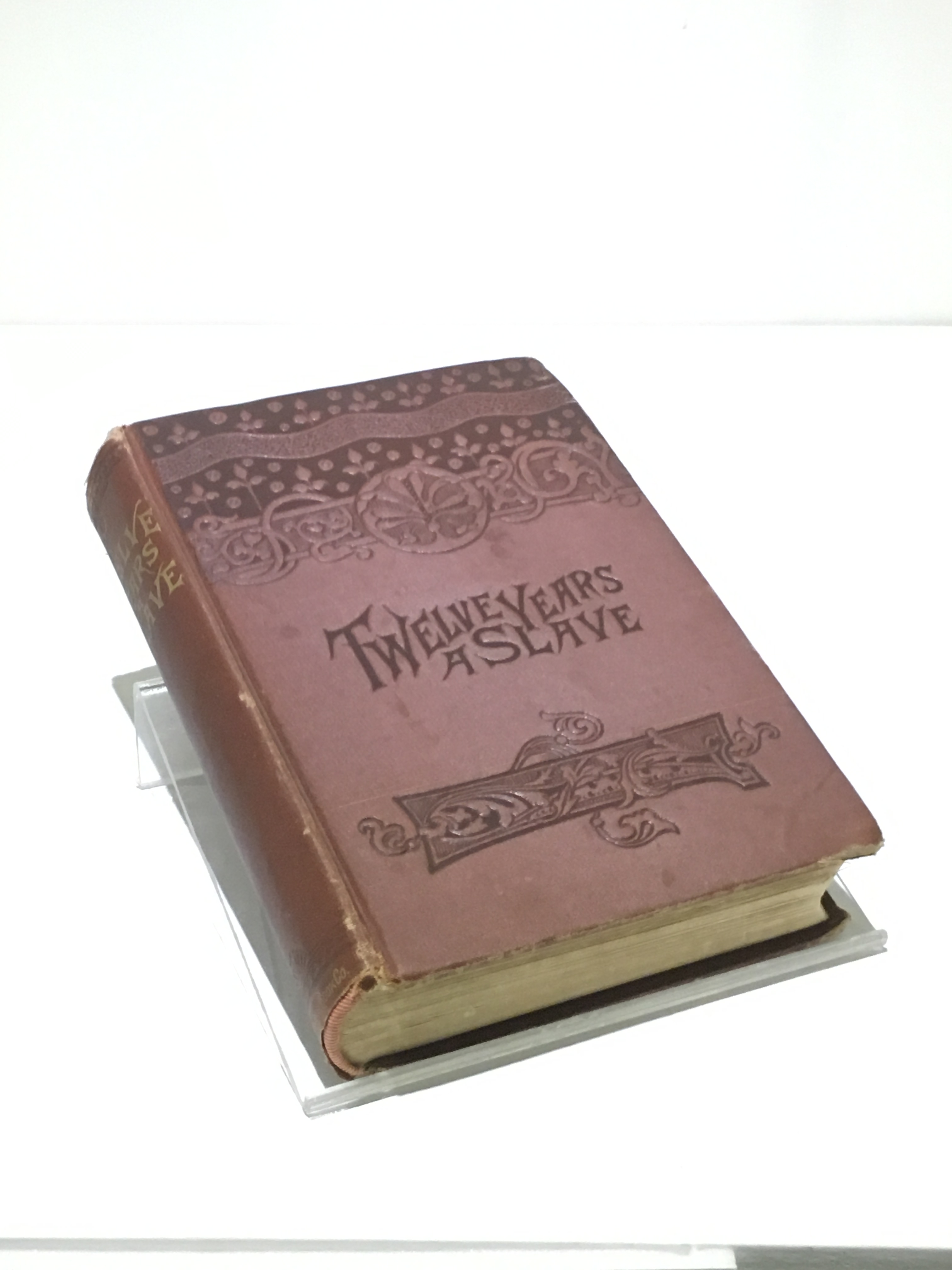 Twelve years a slave 1892